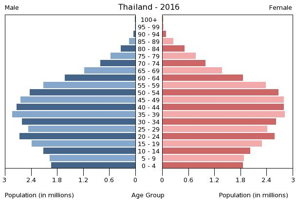 The population pyramid of Thailand illustrates the age and sex structure of population and may provide insights about political and social stability, as well as economic development. The population is distributed along the horizontal axis, with males shown on the left and females on the right. The male and female populations are broken down into 5-year age groups represented as horizontal bars along the vertical axis, with the youngest age groups at the bottom and the oldest at the top. The shape of the population pyramid gradually evolves over time based on fertility, mortality, and international migration trends.